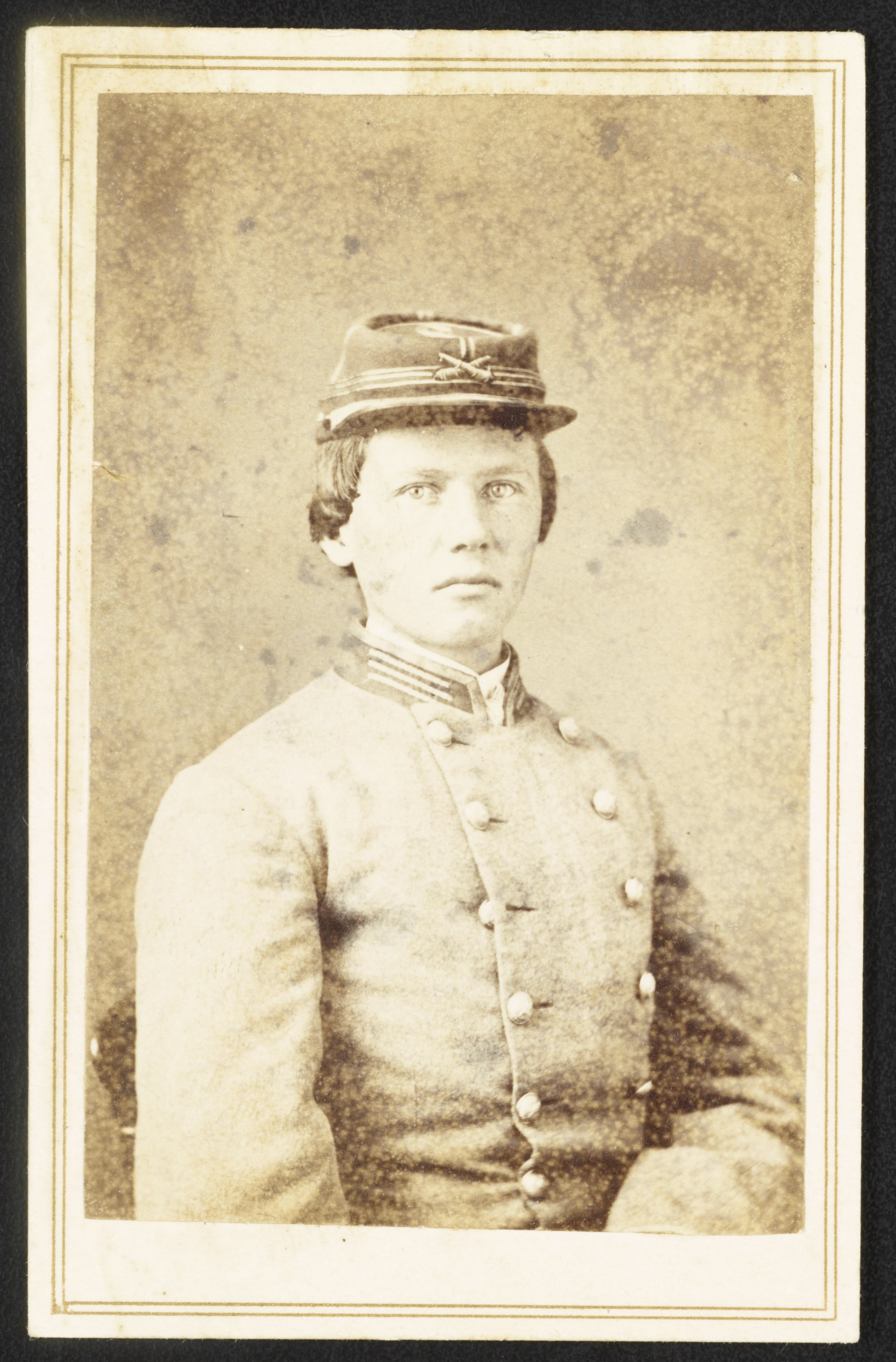 Title: Captain William Pratt Parks of Co. D, 4th Arkansas Infantry Battalion and 1st Tennessee Heavy Artillery Regiment in uniform Abstract/medium: 1 photograph : albumen print on card mount ; mount 11 x 6 cm (carte de visite format)